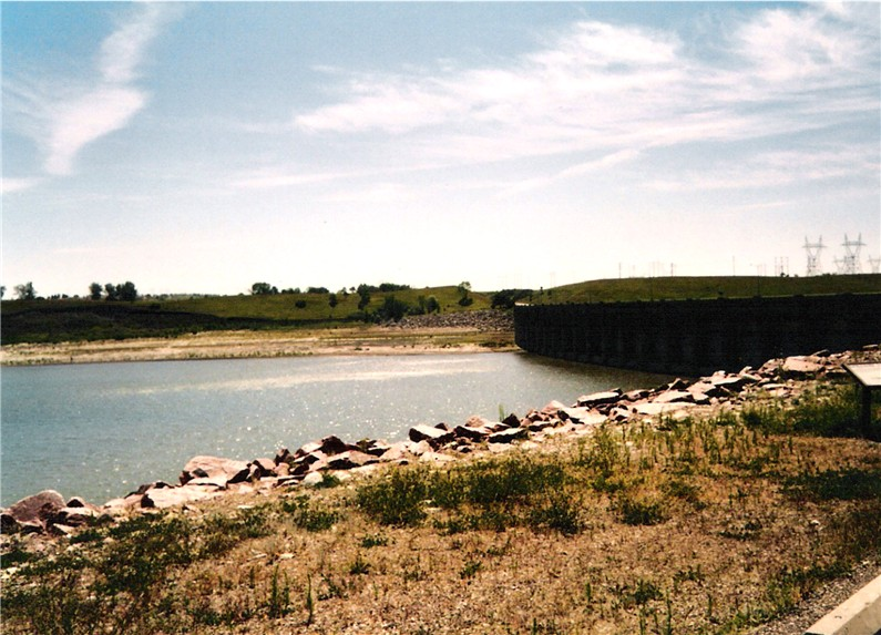 The spillway of the Garrison Dam on the Missouri River in North Dakota